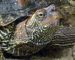 Graptemys pseudogeographica - horizontale Augenstellung